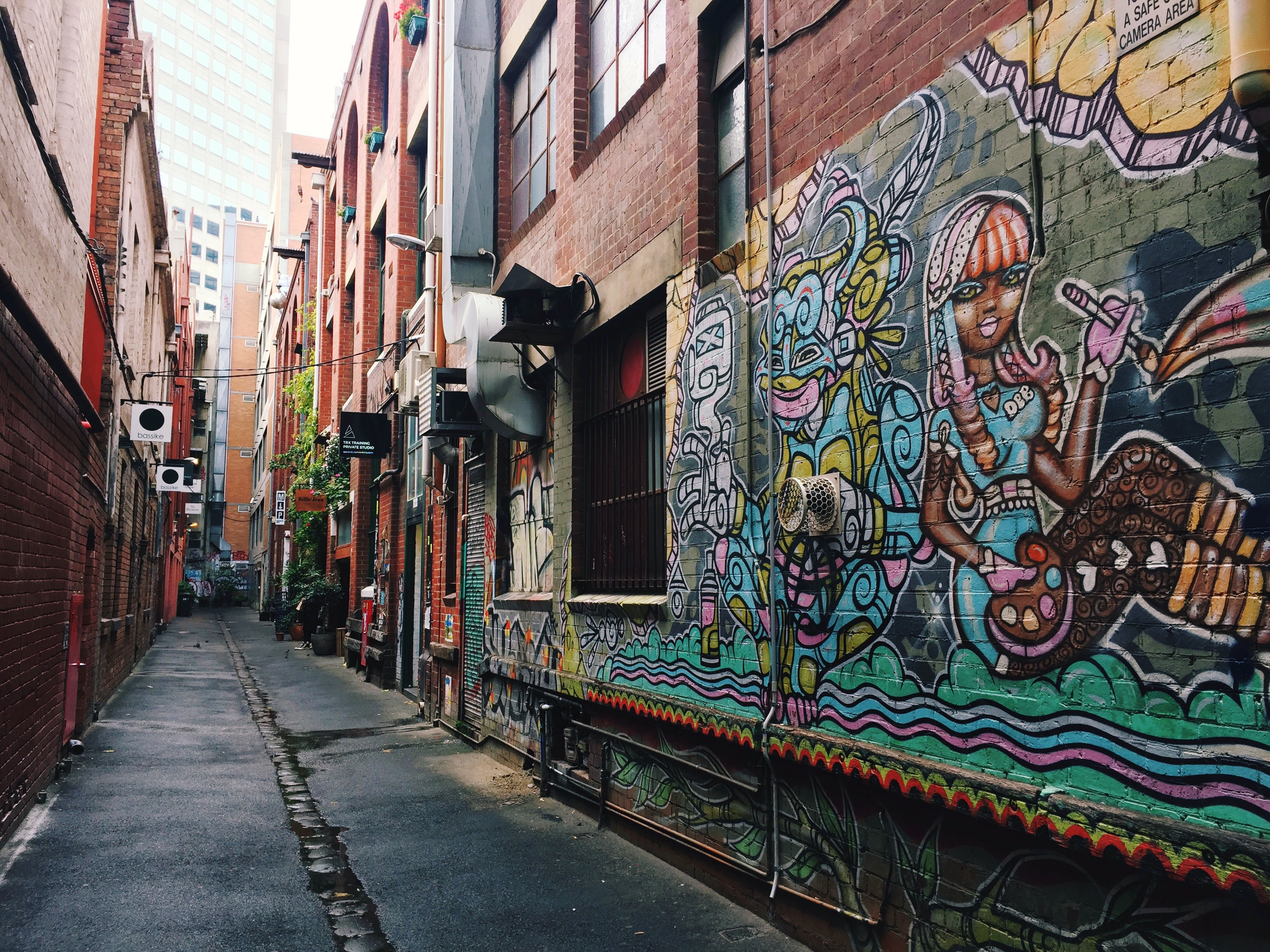 Melbourne morning walk